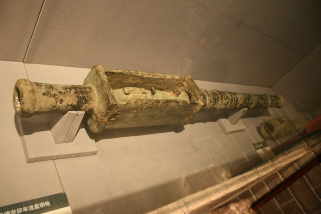 A Chinese bronze breech-load cannon from the Ming Dynasty (1368–1644), on display at the Beijing Capital Museum.